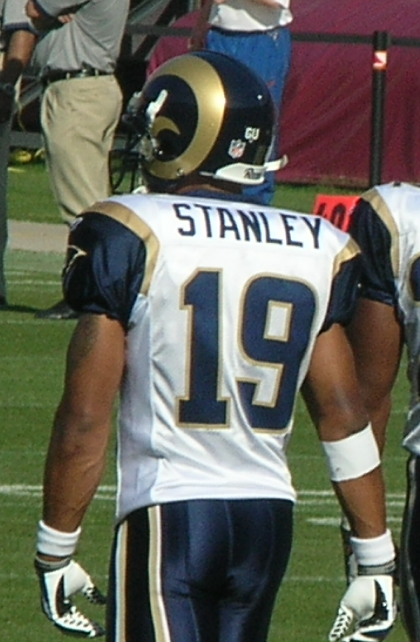 St. Louis Rams wide receiver David Stanley on the field at Candlestick Park prior to a road game against the San Francisco 49ers. The 49ers won 35-16.